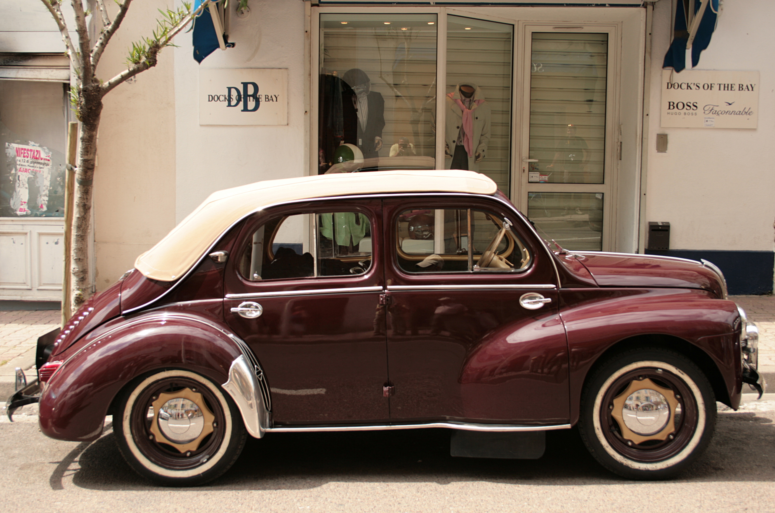 Renault 4CV Convertible - Wilson Boulevard Calvi ( Haute-Corse France).